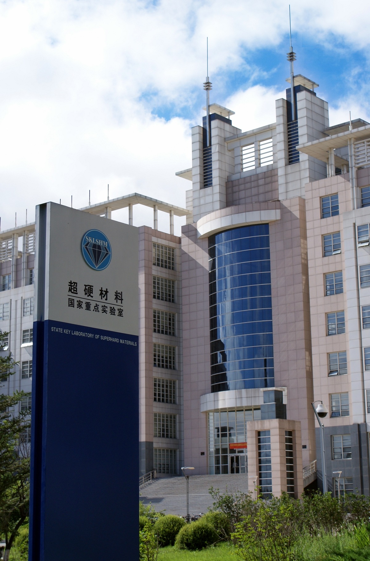 State key laboratory of superhard materials in Jilinuniversity ，China中文（中国大陆）: 吉林大学超硬材料国家重点实验室